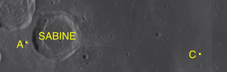 Part of the chart LAC-60 used for the presentation.